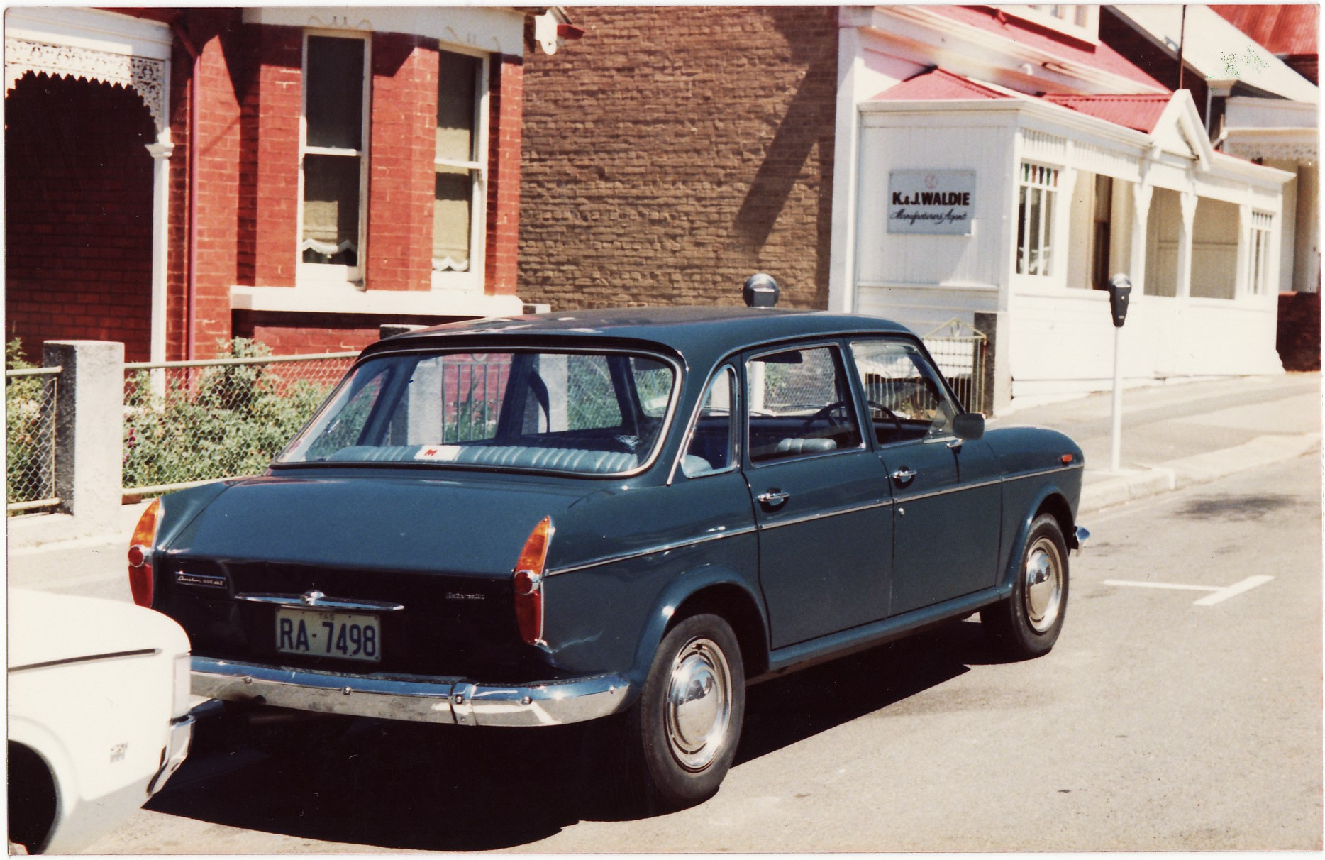 Australian built BMC ADO 17, looking identical to British version